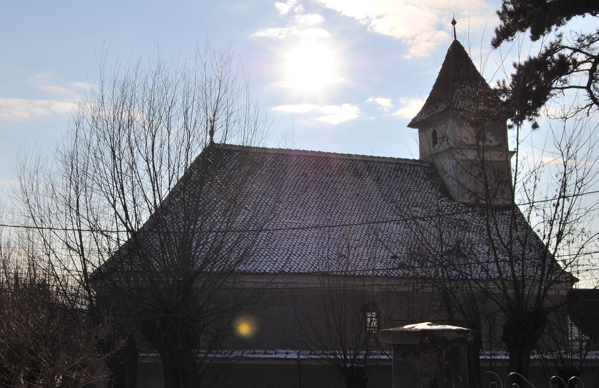 Reformed church from Ariușd, Vâlcele, Covasna county, Romania